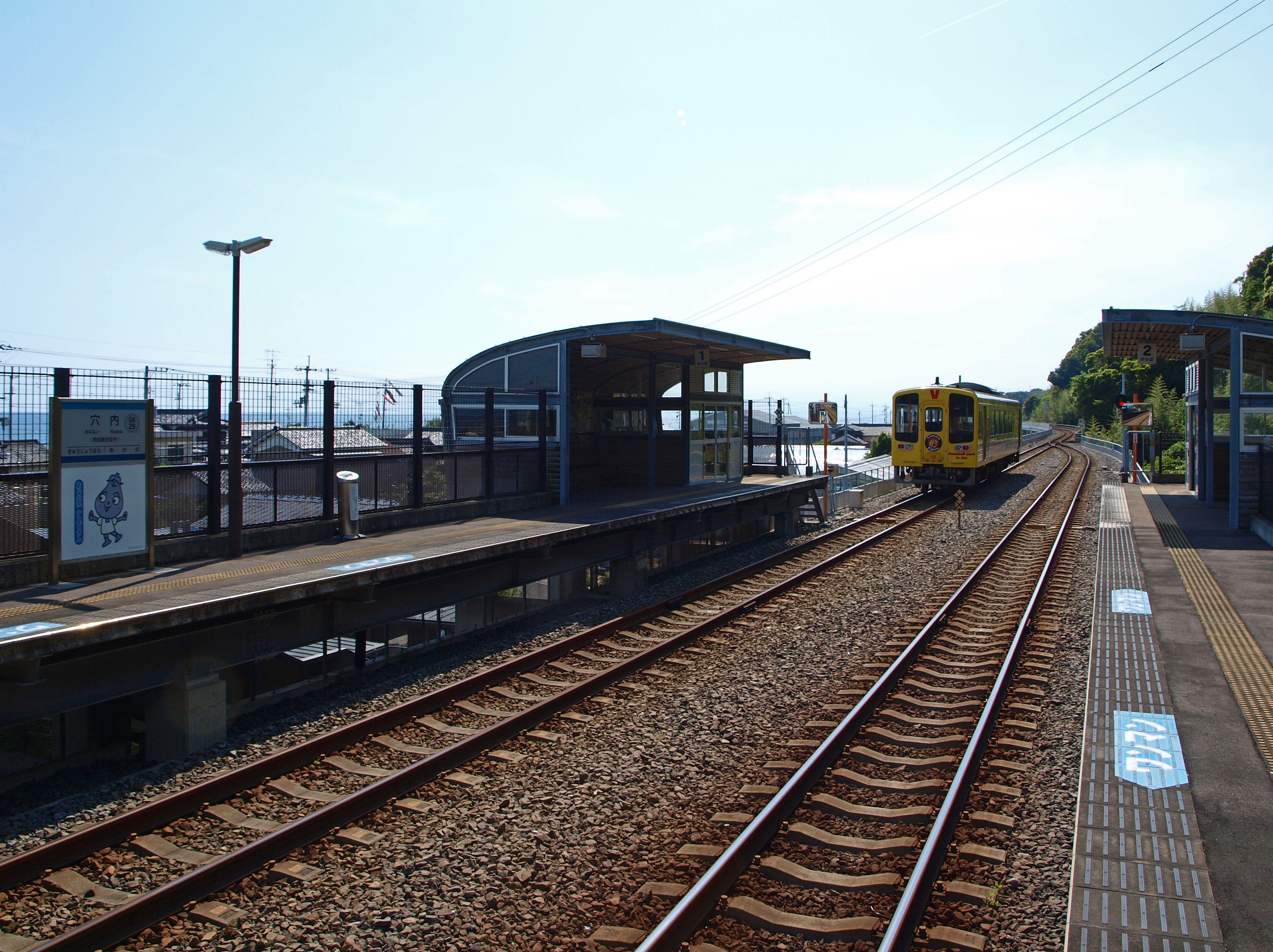 Ananai Station, Gomen-Nahari Line（Asa Line), Tosa Kuroshio Railway, Japan